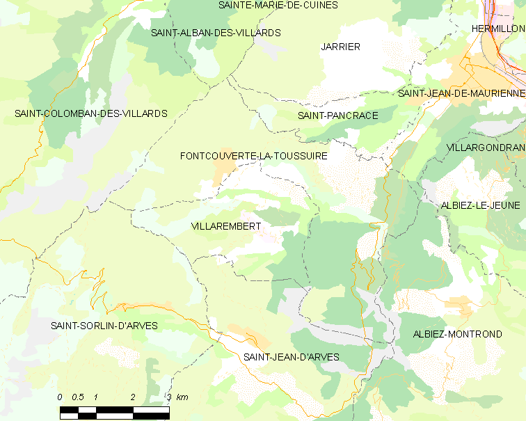 Map of French municipality